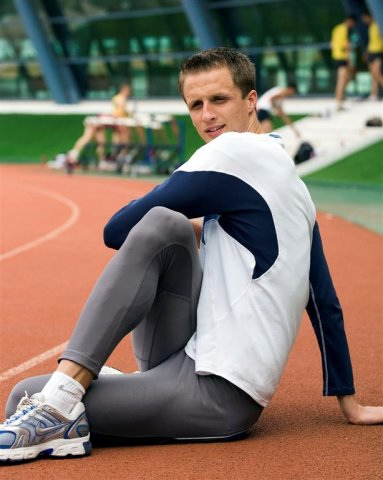 Stijn Stroobants Stretching